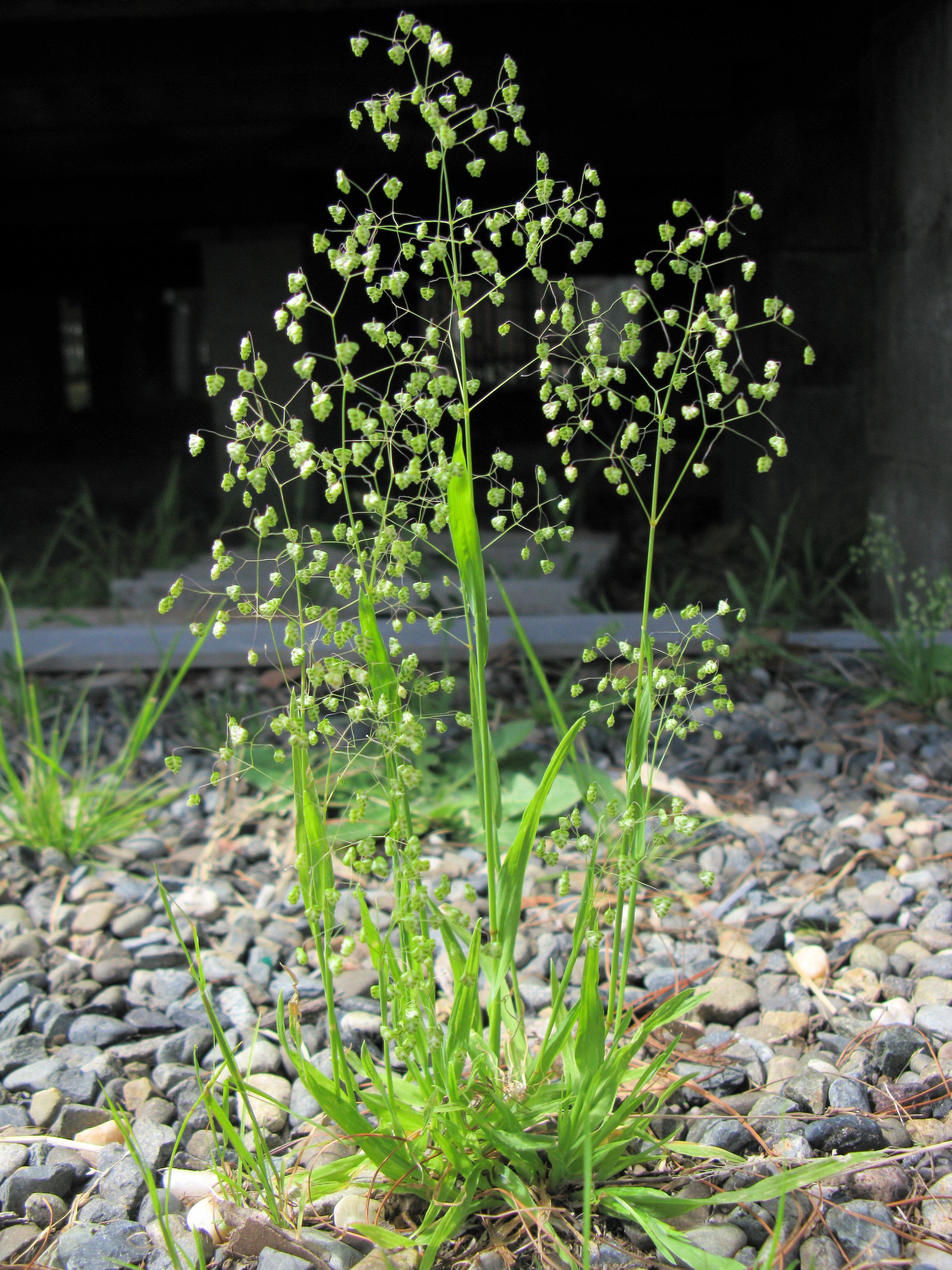 An indicator of poor ground cover.